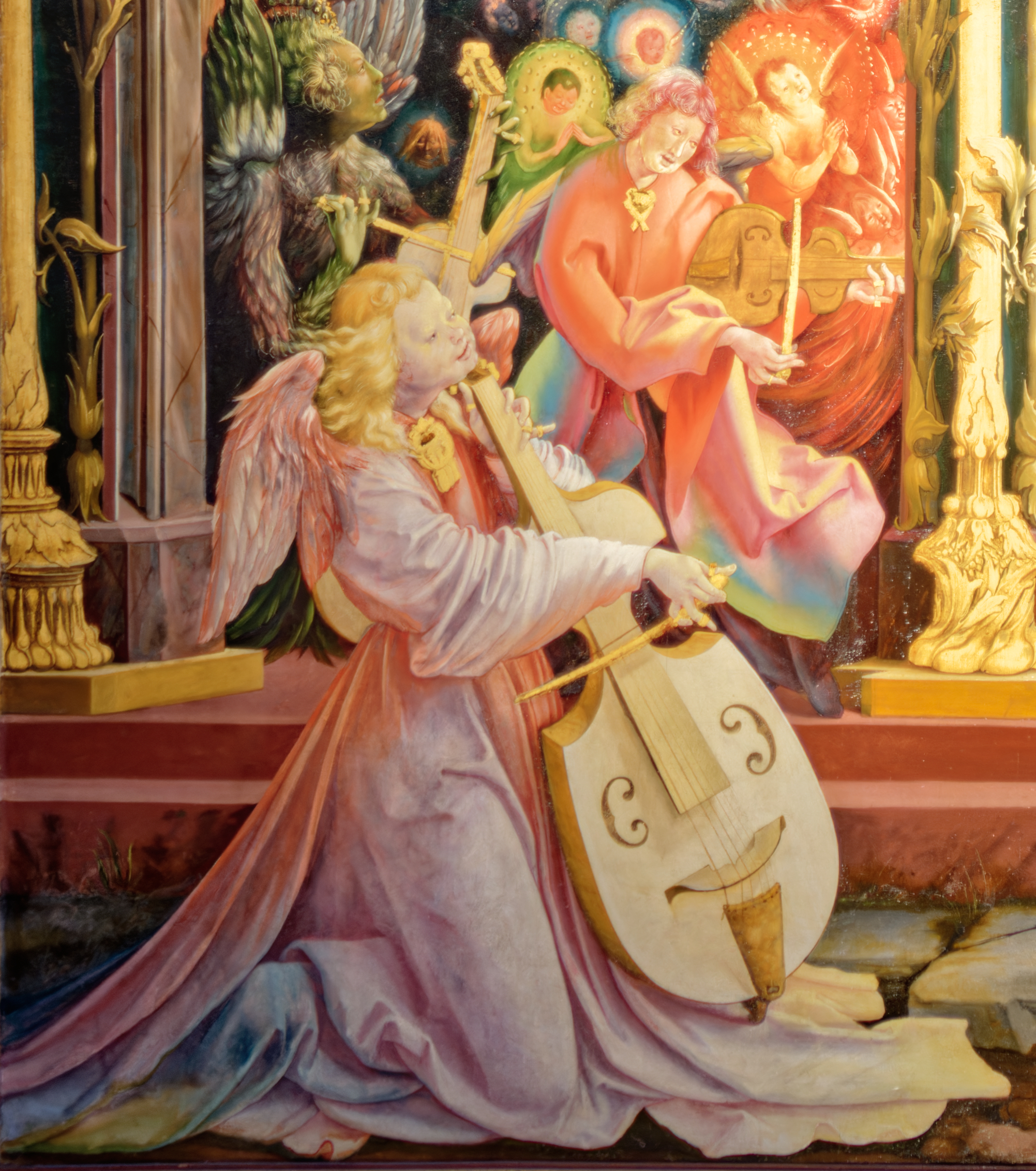 Historic representation of performance on a viola da gamba and a viola da braccio, from the Isenheimer Altar In the foreground, the manner of playing the viola da gamba. (An angel holds the bow underhand, but the artist seems to have incorrectly inverted the position of the arm for bowing.) In background, the manner of playing the viola da braccio.